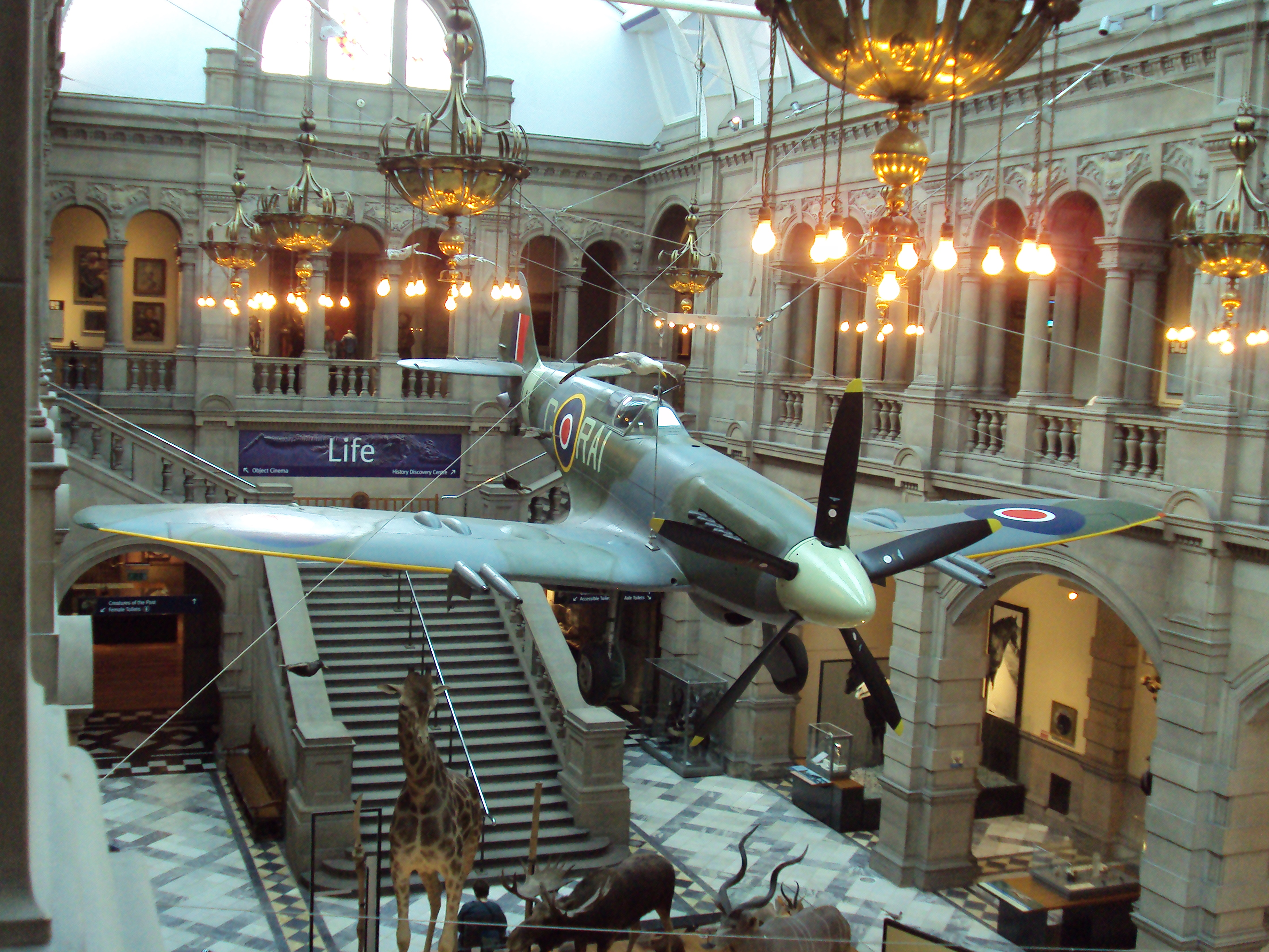 Spitfire at the Kelvingrove Art Gallery and Museum, Glasgow, Scotland.